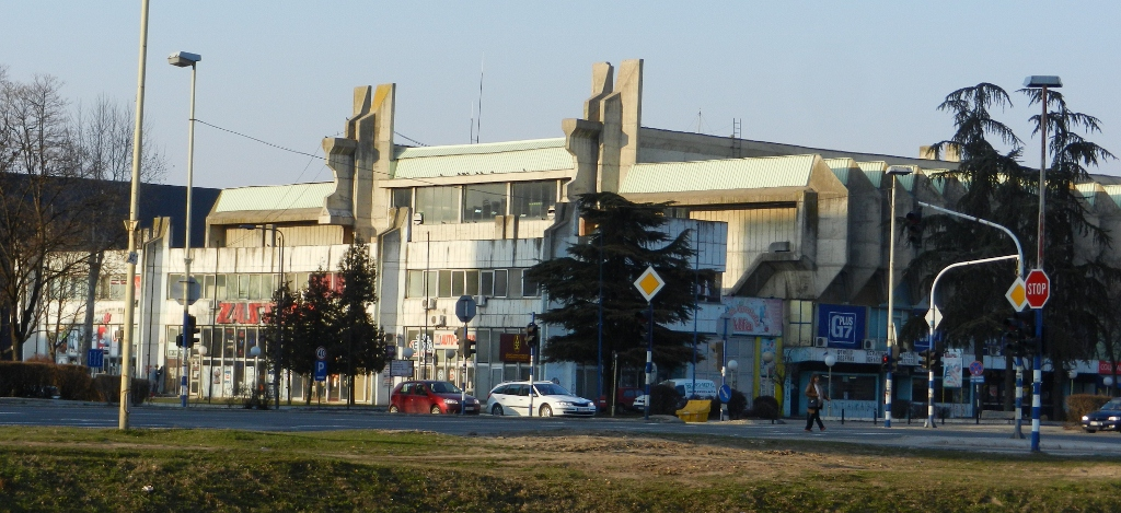 The sports hall Lake, Kragujevac,author Veroljub Atanasijevic Architect 1978